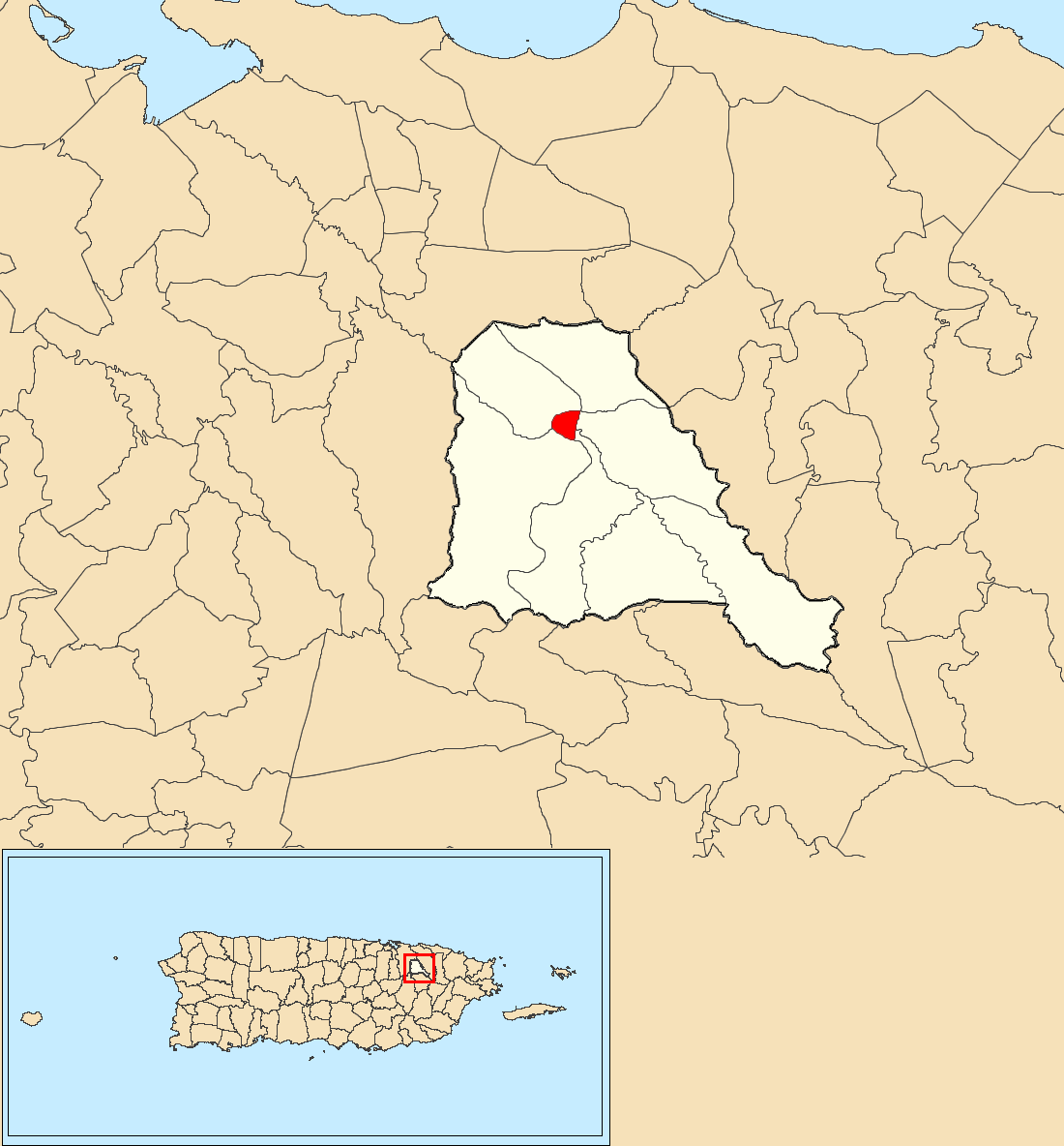 Trujillo Alto barrio-pueblo, Trujillo Alto, Puerto Rico locator map